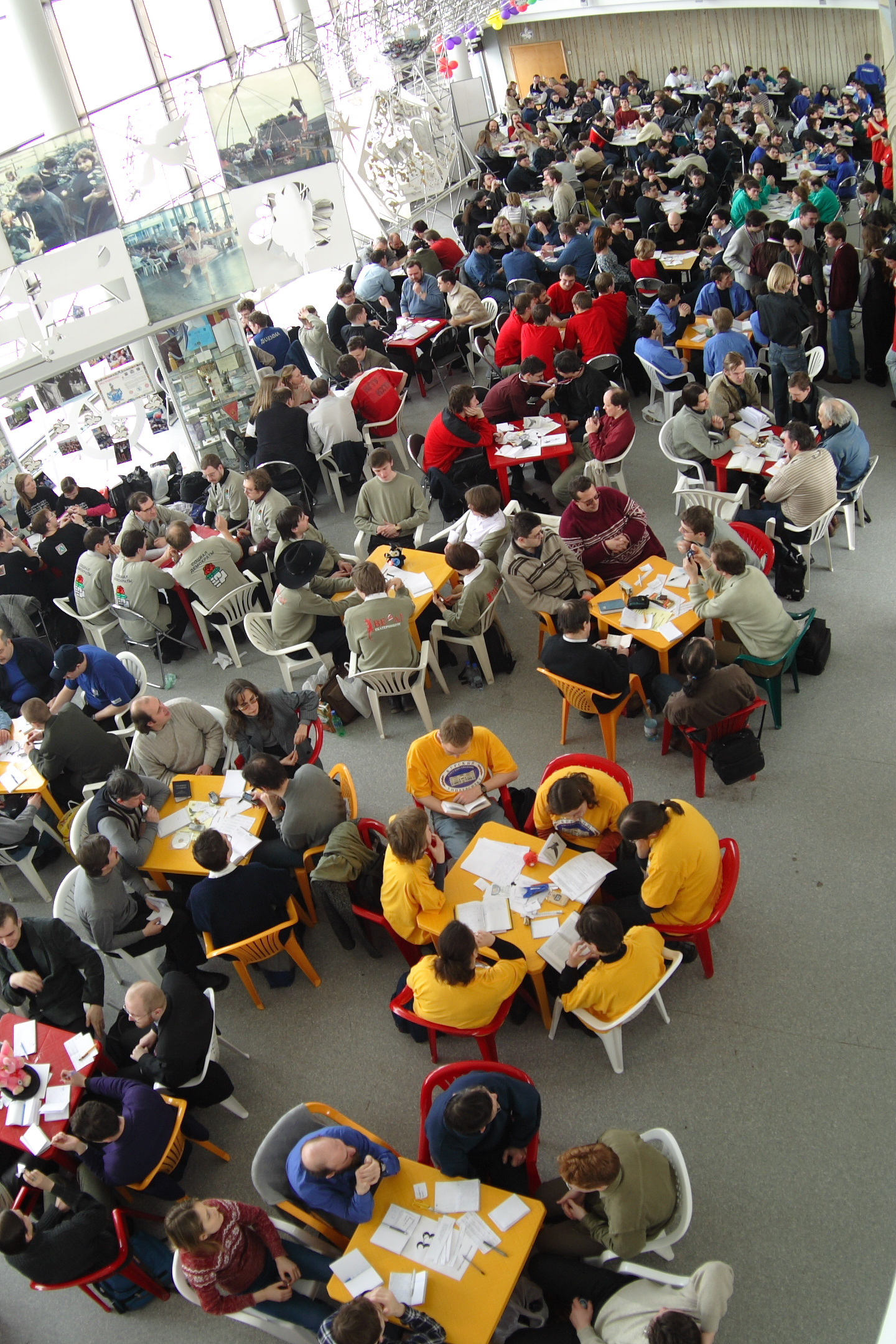 The second day of the Fifth Russian Championship on What? Where? When?. 27 Feb 2005, Moscow State Palace of Child and Youth Creativity.